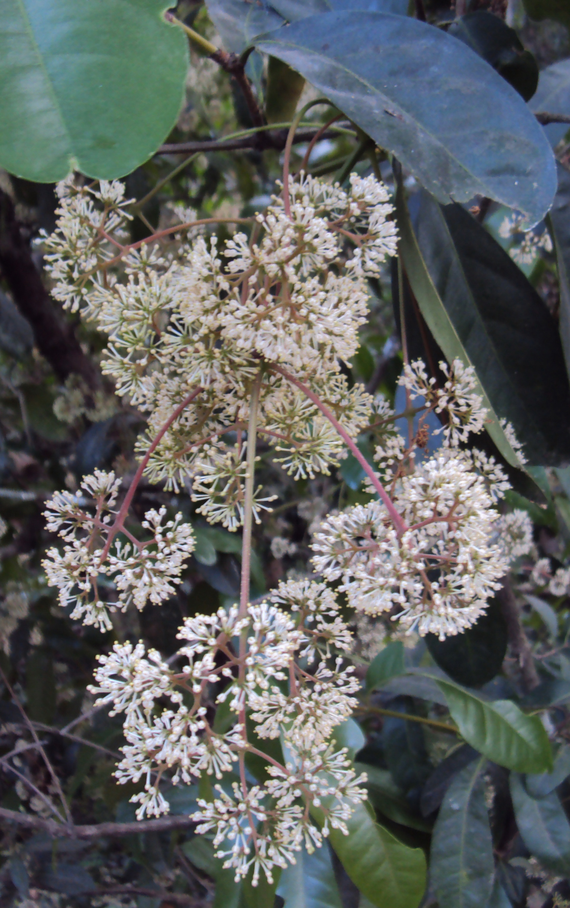 Ixora brachiata